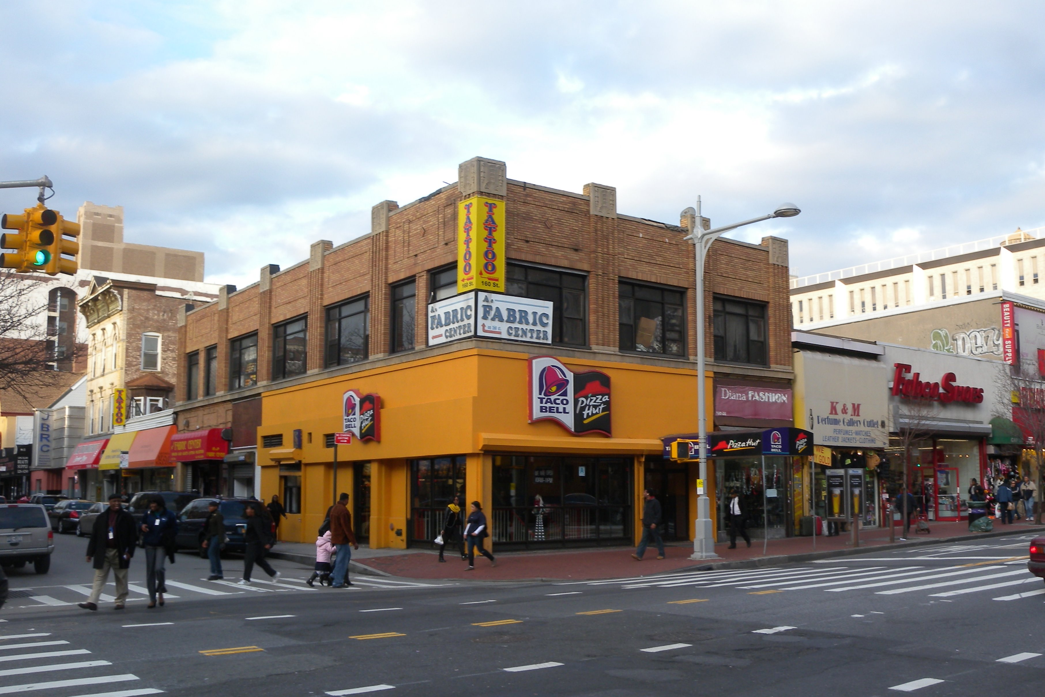 Looking northeast across Jamaica Avenue and 160th St on a mostly cloudy afternoon.